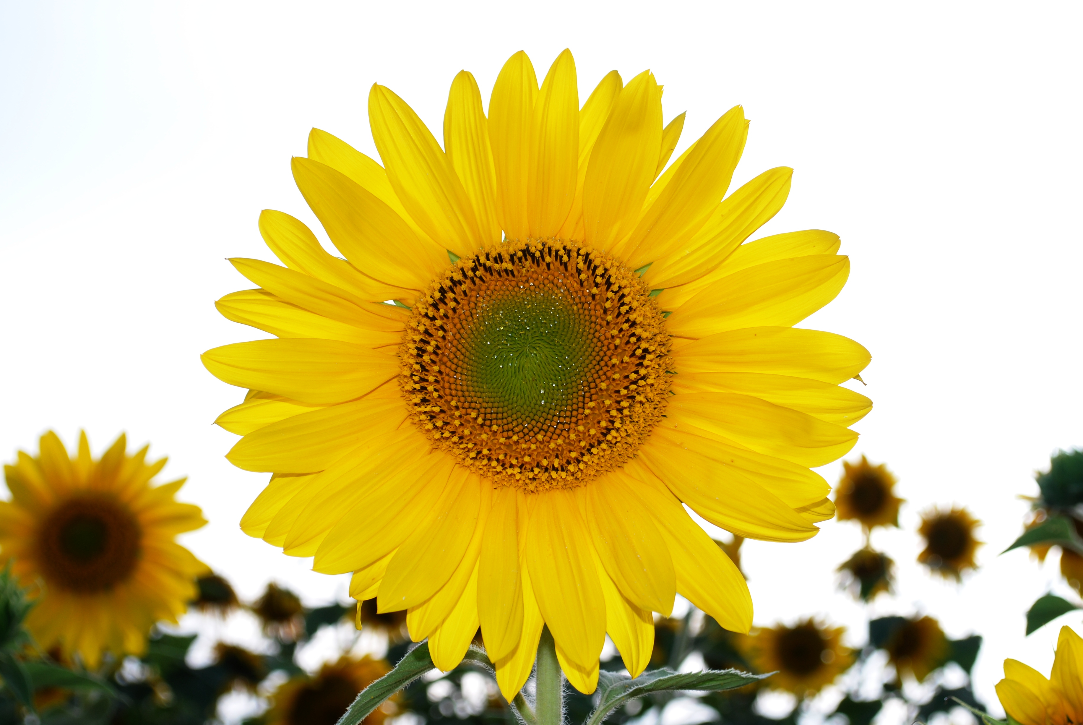 Sunflower at Himawari no sato